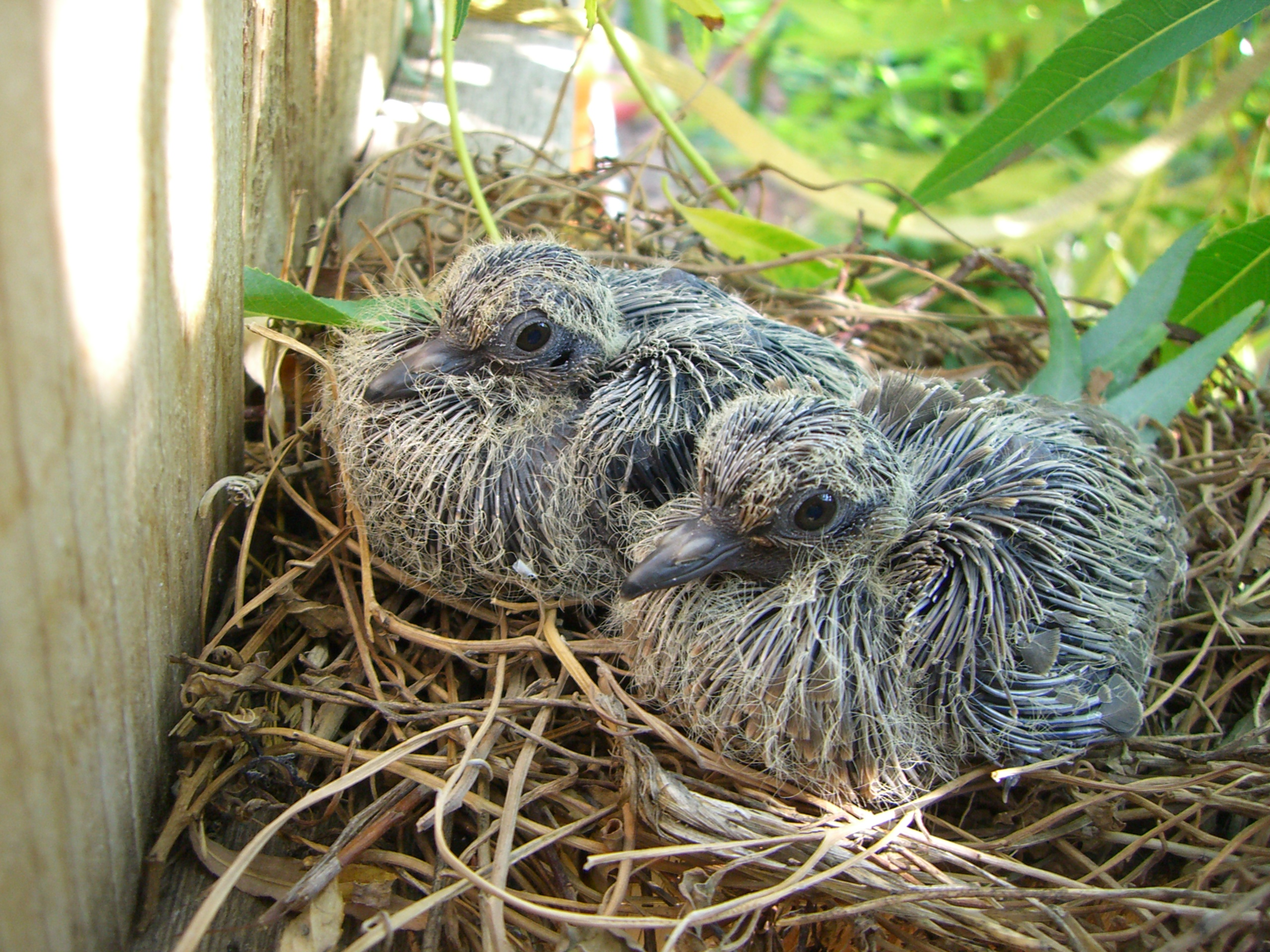 Mourning Dove chicks on their nest